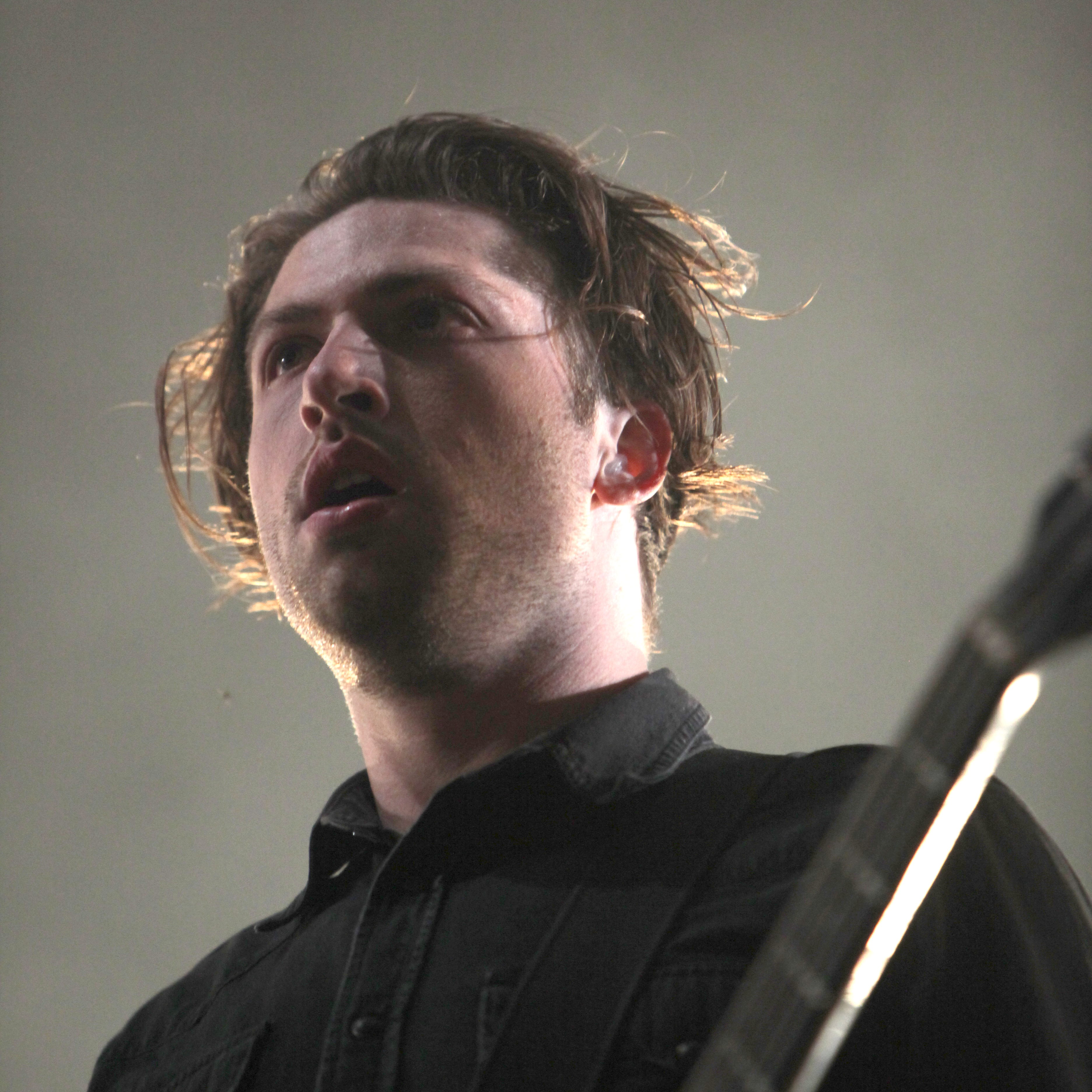 Michael Shuman with Queens of the Stone Age at the Eurockéennes de Belfort 2011 The making of this document was supported by Wikimedia CH. (Submit your project!) For all the files concerned, please see the category Supported by Wikimedia CH.